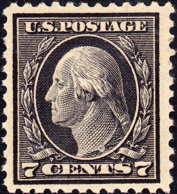 Washington_WF_1917_Issue-7c.jpg